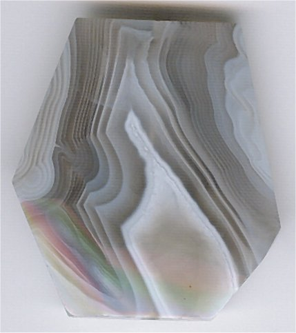 Faceted Botswana agate